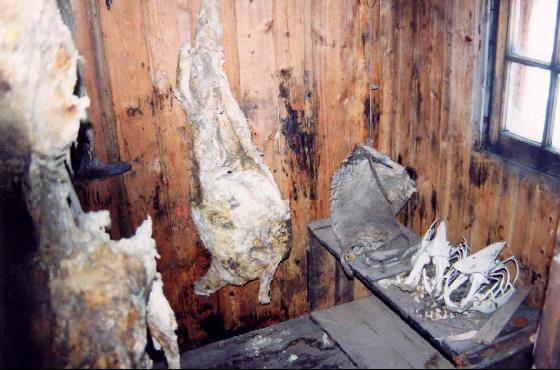 Scott's Discovery hut at McMurdo Station, Antarctica. My photo from Jan 1999.